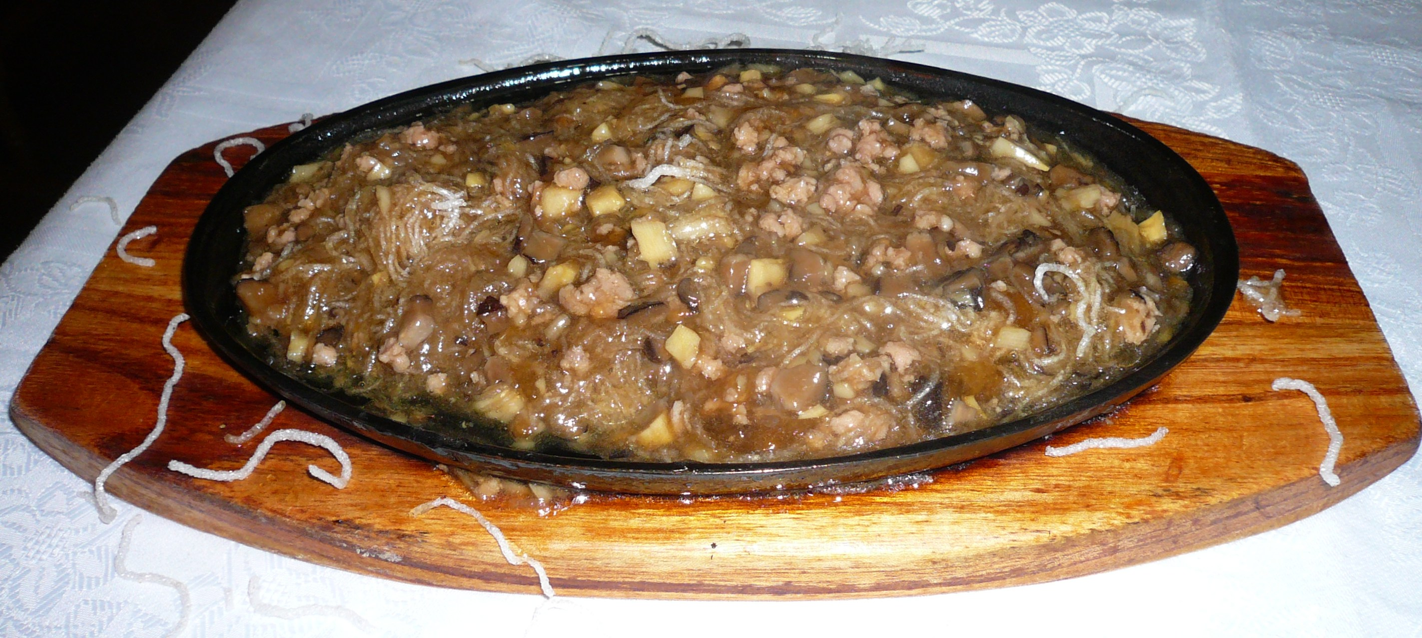 Ants climb tree. Chinese food.